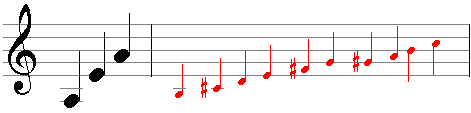 Tuning of a Bulgarian knee-violin Gdulka (Gadoelka). 3 melodystrings (black) 10 resonance strings (red) Picture created by me using MusiCAD